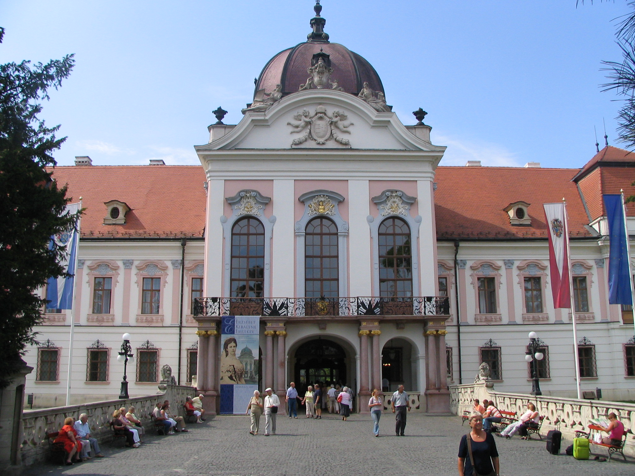 Gödöllői Királyi Kastély This is a photo of a monument in Hungary, Identifier: 7051